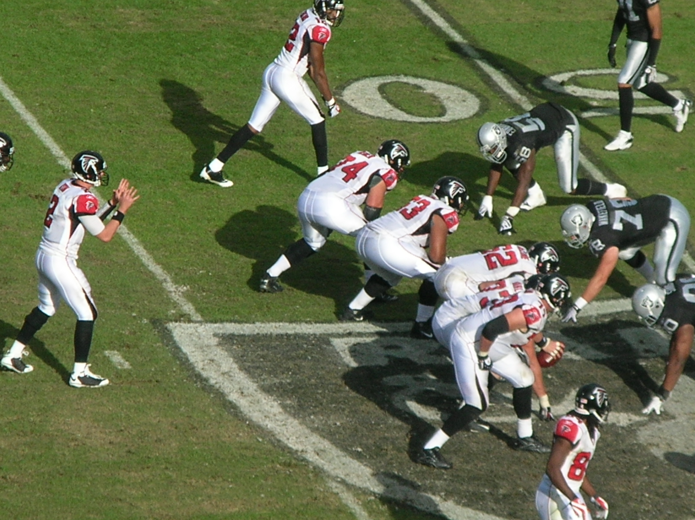 The Atlanta Falcons on offense during a road game against the Oakland Raiders. The Falcons won 24-0.